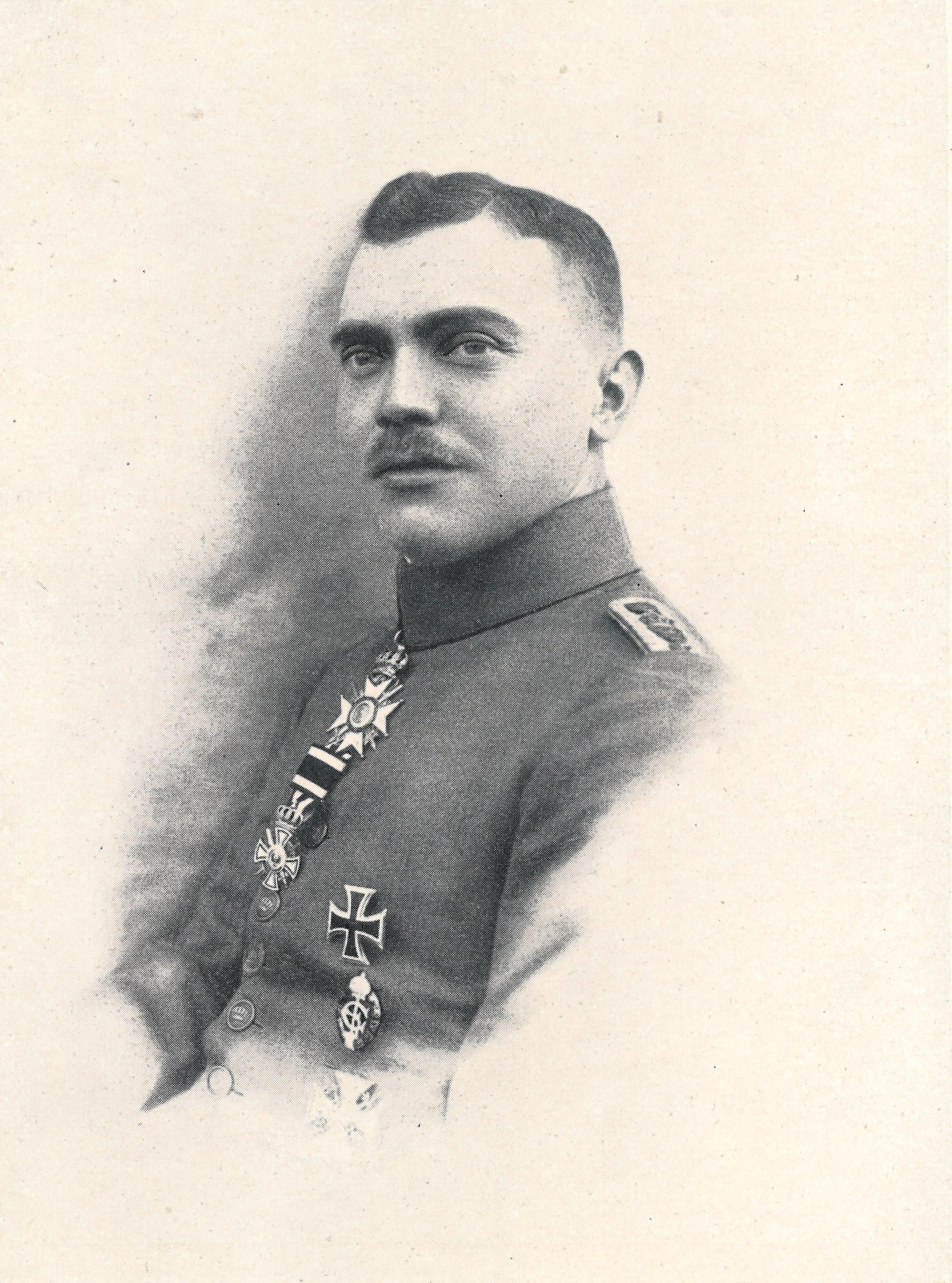 Ferdinand zu Solms-Hohensolms-Lich (1886-1918)